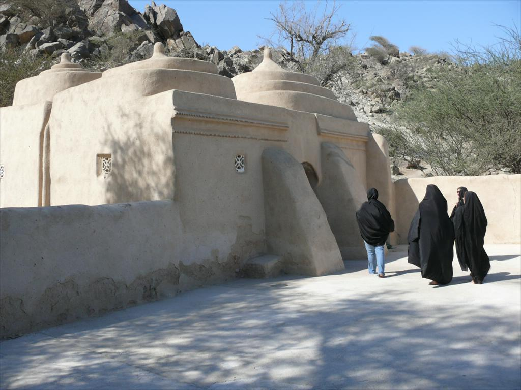 This is a photo of the Al Bidyah Mosque in Fujairah, United Arab Emirates on either 26 or 27 October 2007.